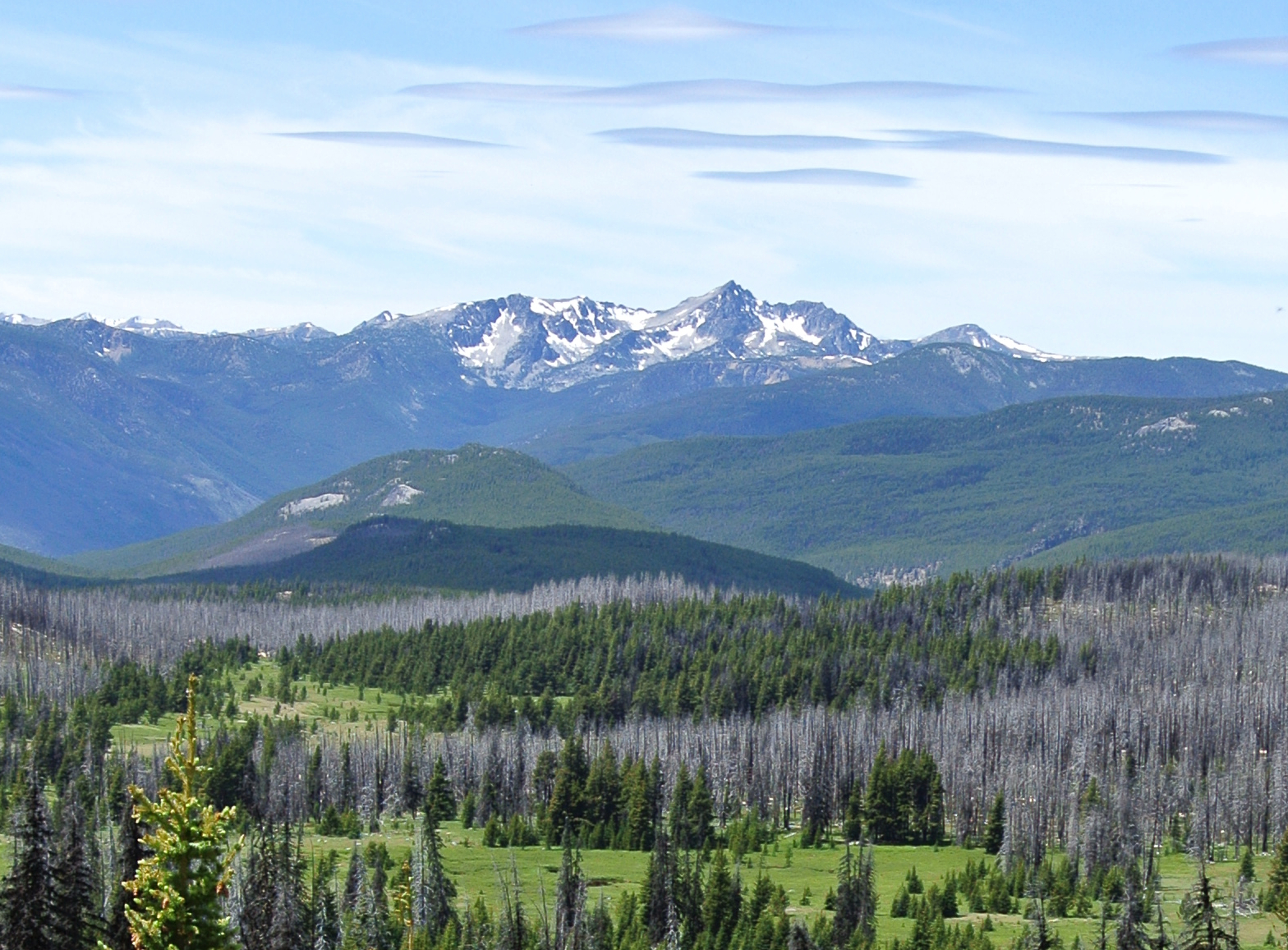 Remmel Mountain seen from Horseshoe Basin. Pasayten Wilderness of WA